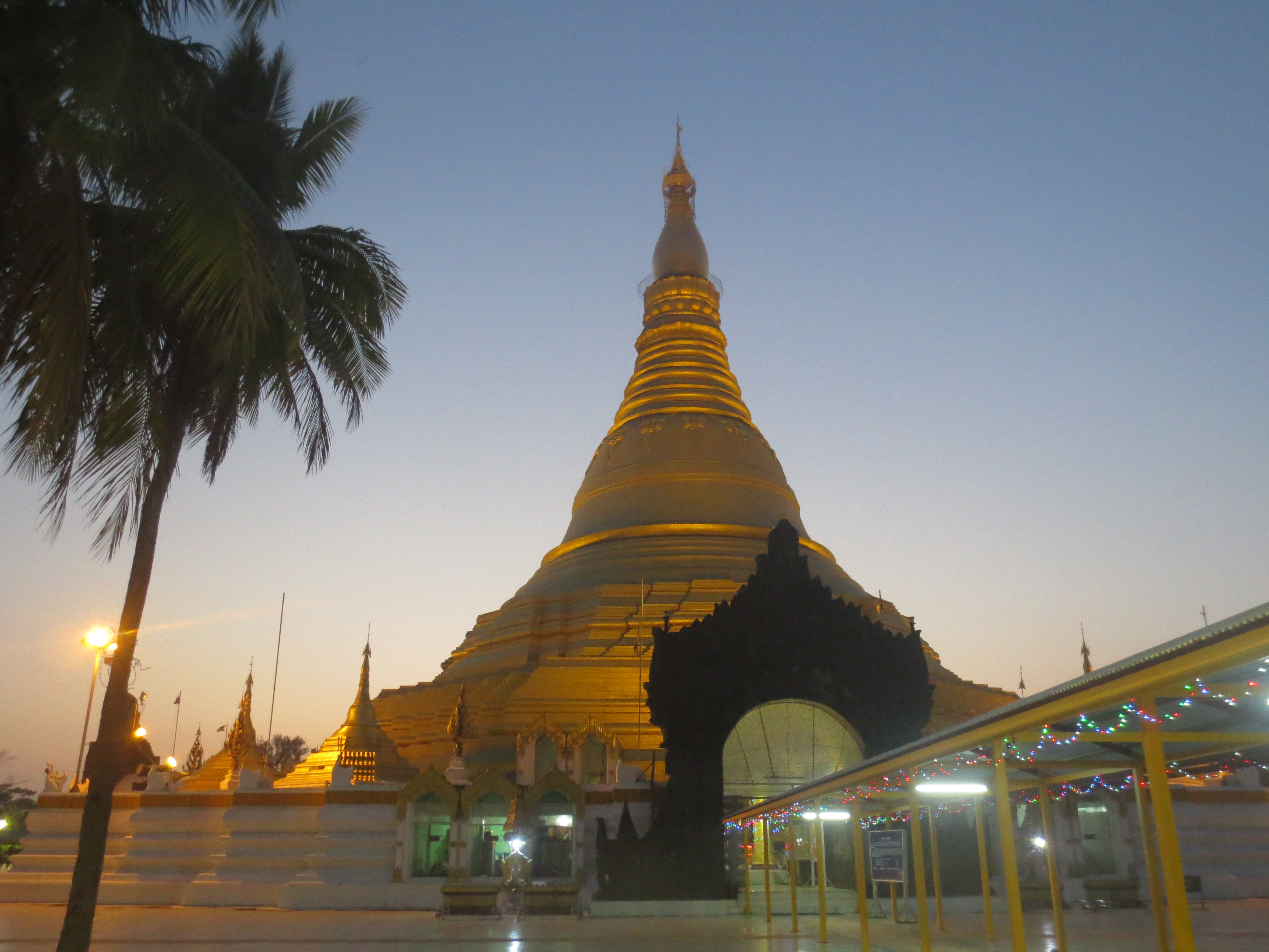 Lawkananda Pagoda seen 2017 March 17